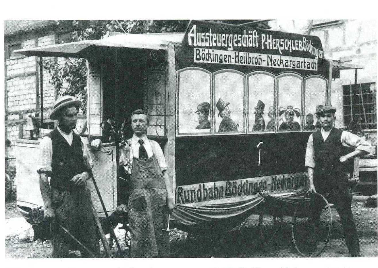 Heilbronn-Böckingen_Werbewagen_des_Aussteuergeschäfts_von_Paul_Herschleb_1900